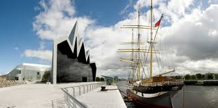 The new Glasgow Museum of Transport Building.